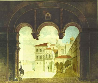 Moscow, the Kremlin. The Poteshny Palace.